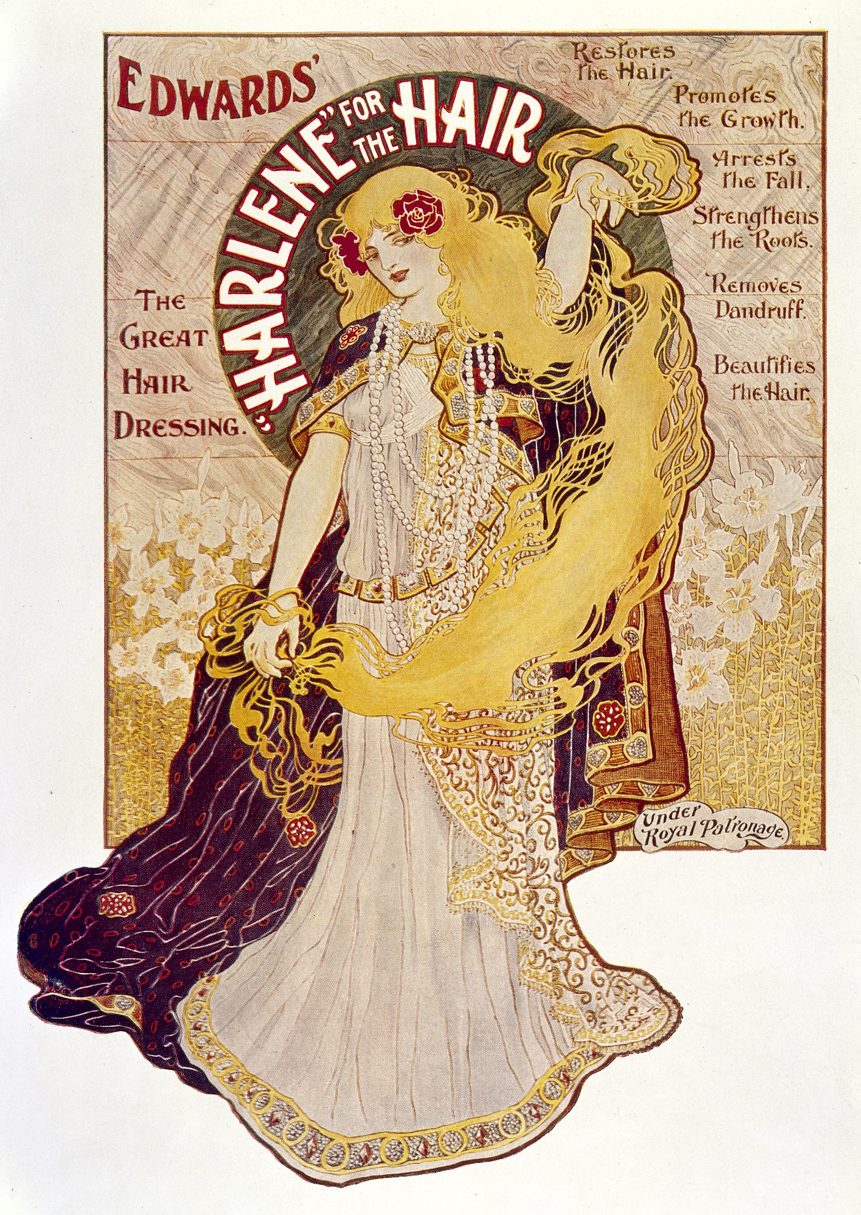 Edwards' "Harlene" for the hair: the great hair dressing. Print. London: Edwards' "Harlene" Co., [1890's]. Wellcome Images Keywords: Hair; hair styling; Alopecia; Ephemera; Hair Preparations; edwards'; harlene; Harlene.